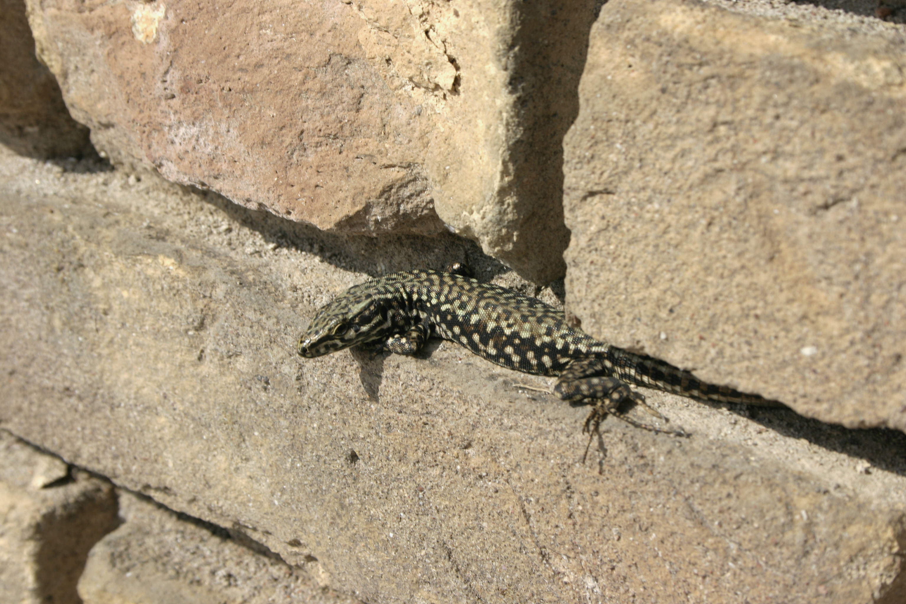 Lizard